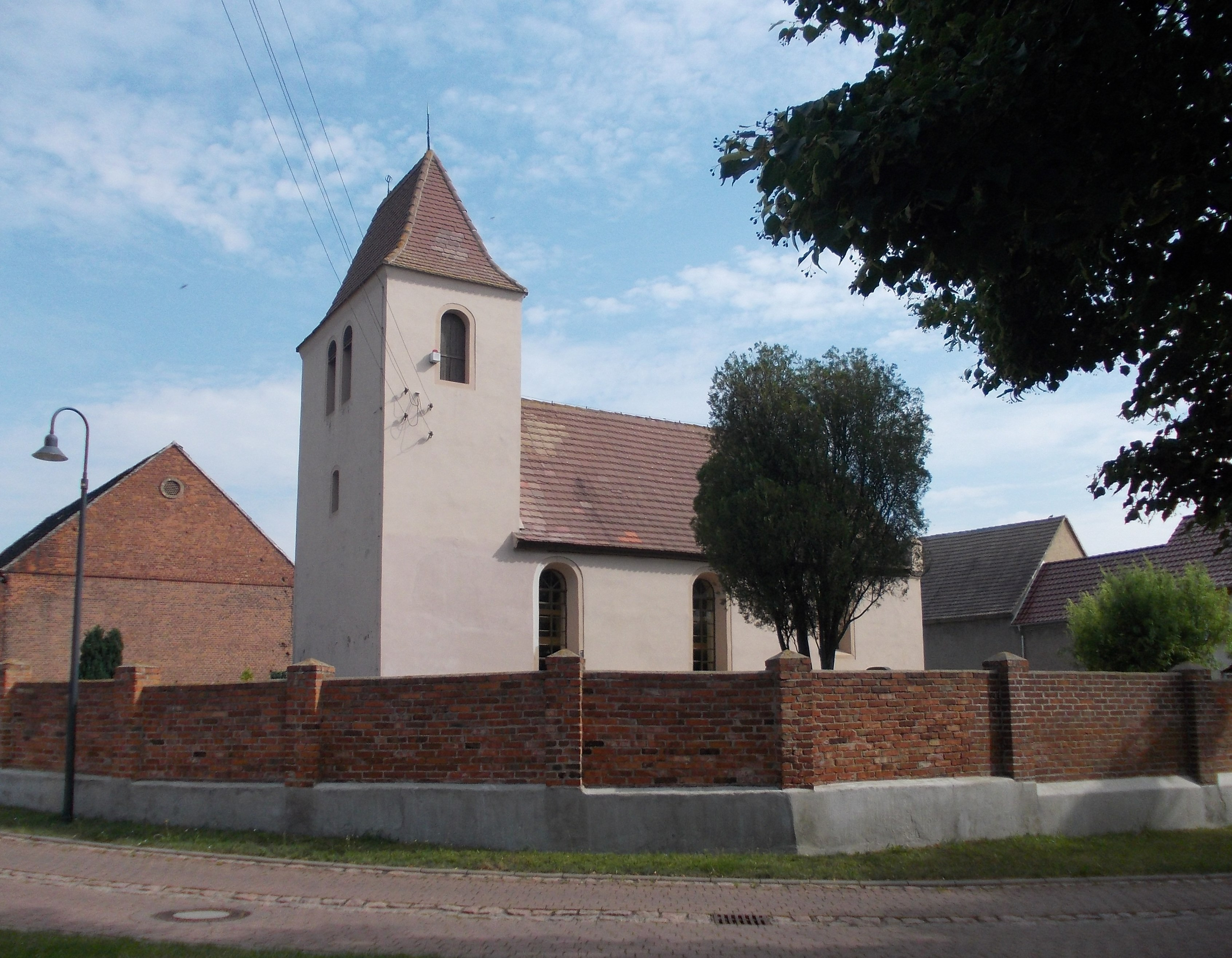 Dörstewitz church (Schkopau, district: Saalekreis, Saxony-Anhalt)